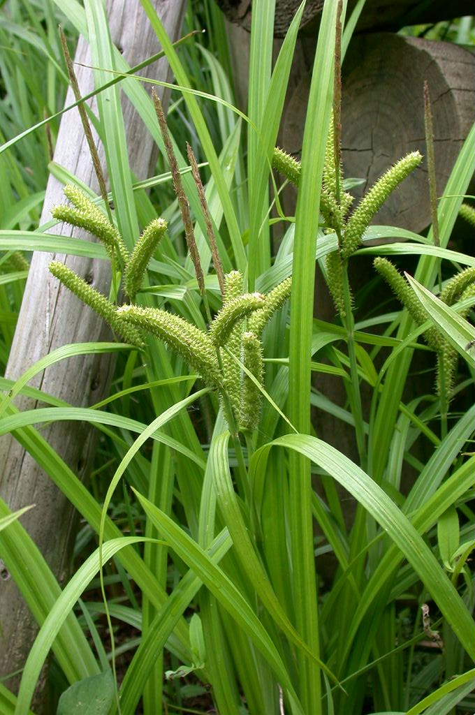 Carex conifetiflora(Cyperaceae)